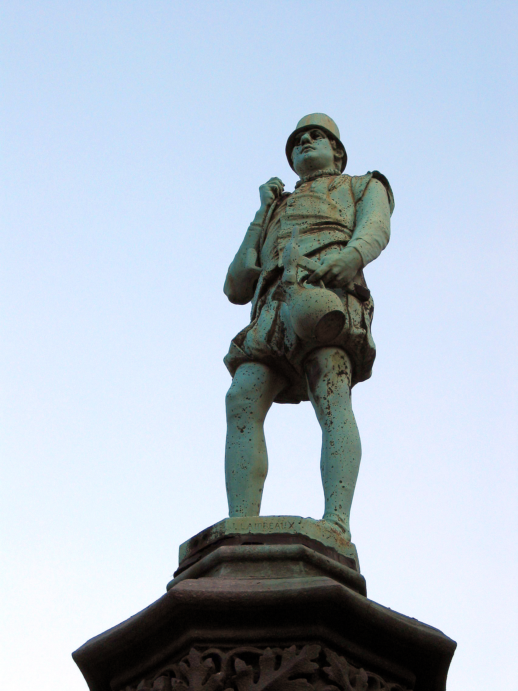 Brussels (Belgium), Square du Petit Sablon - Statue of the Boilermaker performed by the sculptor Jef Lambeaux (XIXth century).